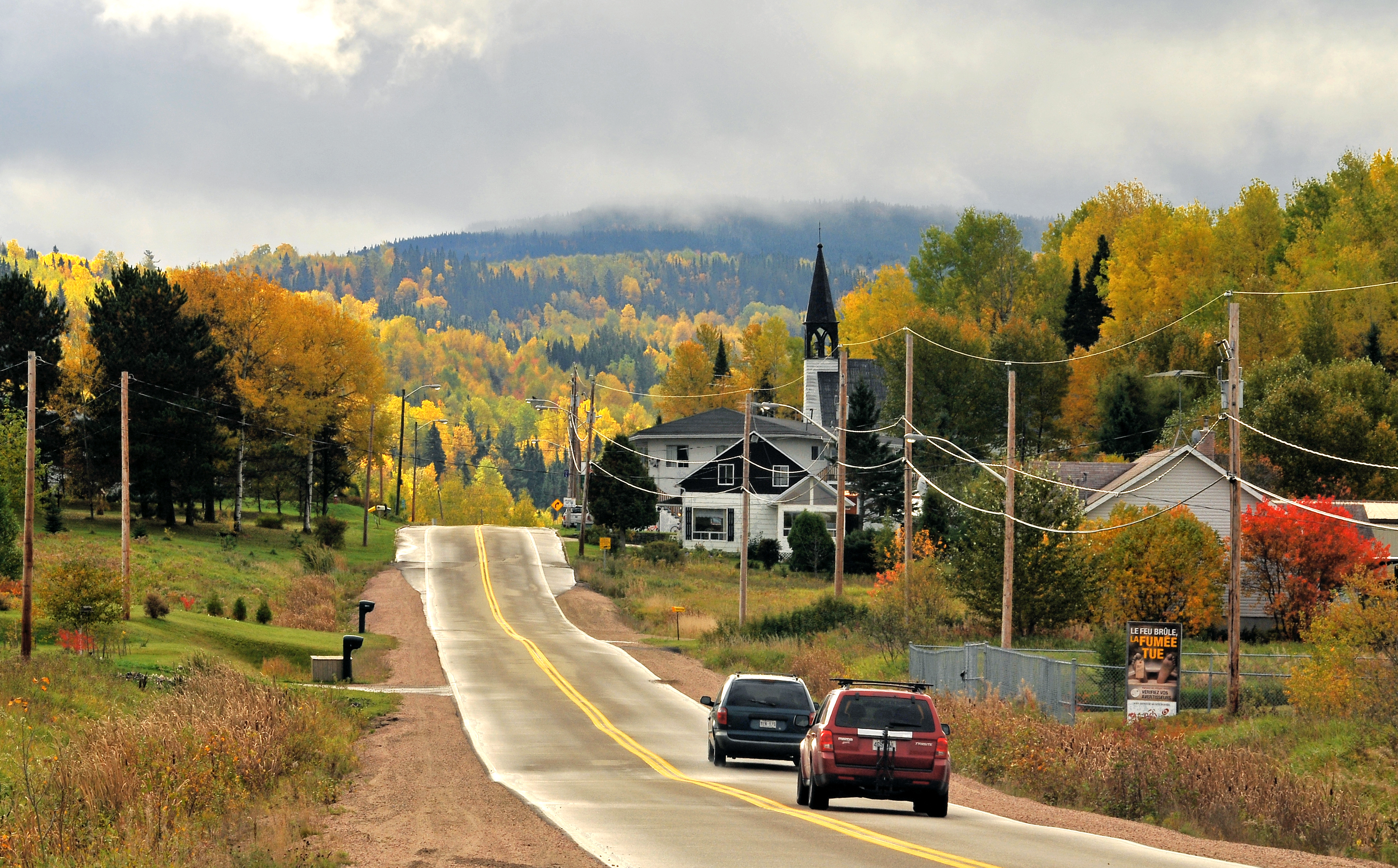 381 Road in the municipality of Ferland-et-Boilleau, Quebec, Canada